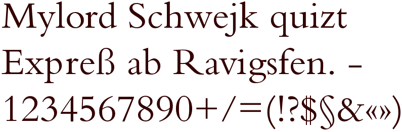 Sample of the Bembo Roman font